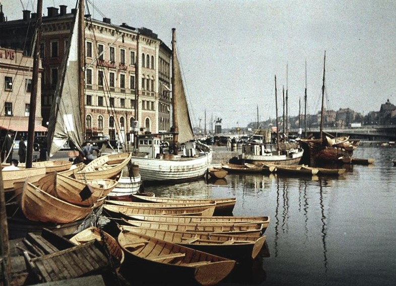 Boats at Mälartorget. Stockholm 1938